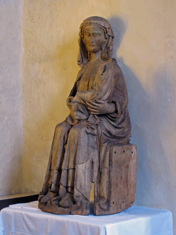 Wooden Madonna in Lemland Church, Åland, Finland